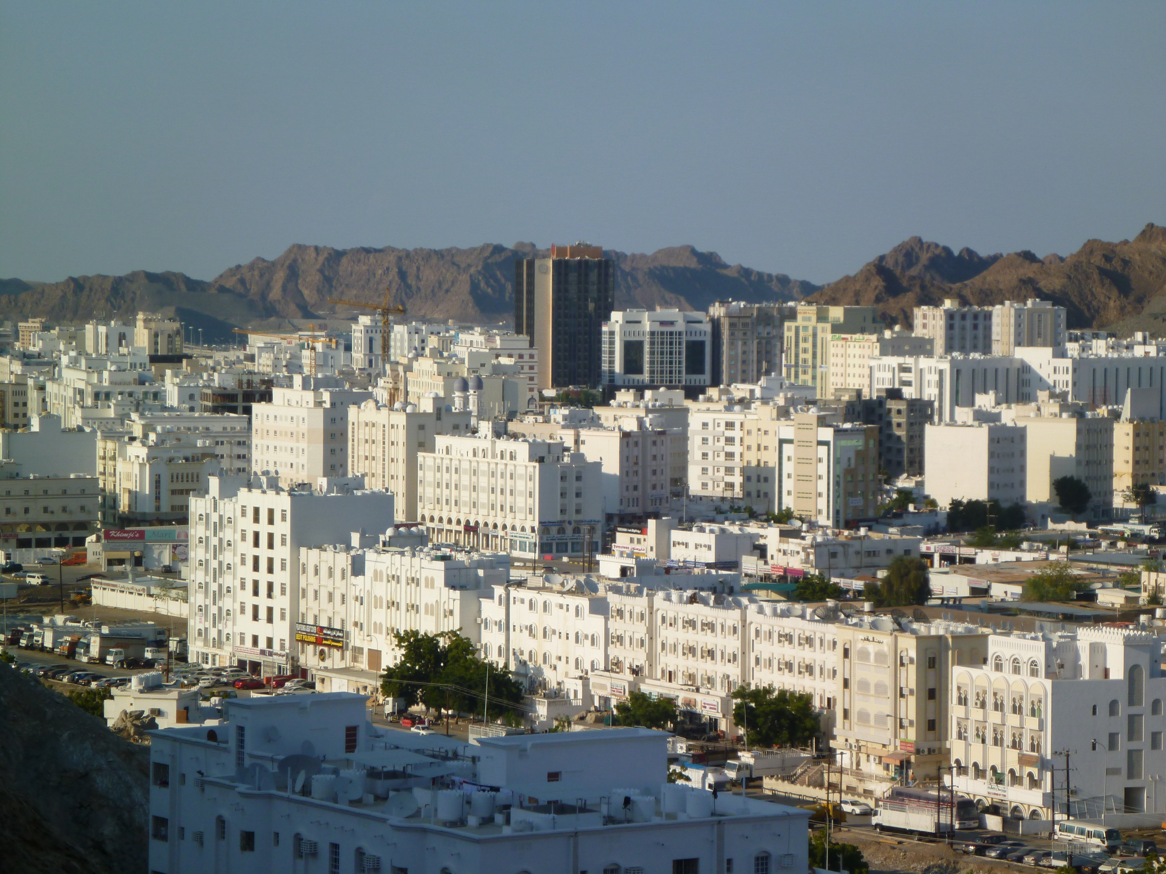 The Muscat business district Ruwi with the Sheraton Hotel